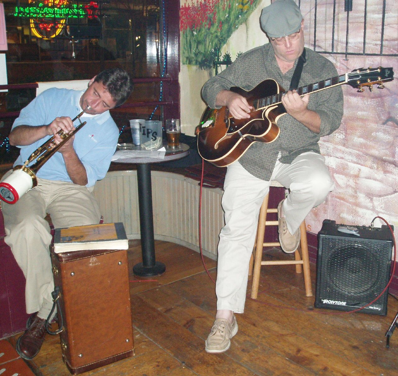 John Kirchoff and John Farrar, Mainstreet Jazz & Blues, Belleville, Illinois, September 3, 2004 John Kirchoff (Tp.) John Farrar (Gt.) Heritage Golden Eagle Polytone Mini-Brute II